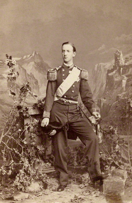 King George I of Greece (1845-1913)